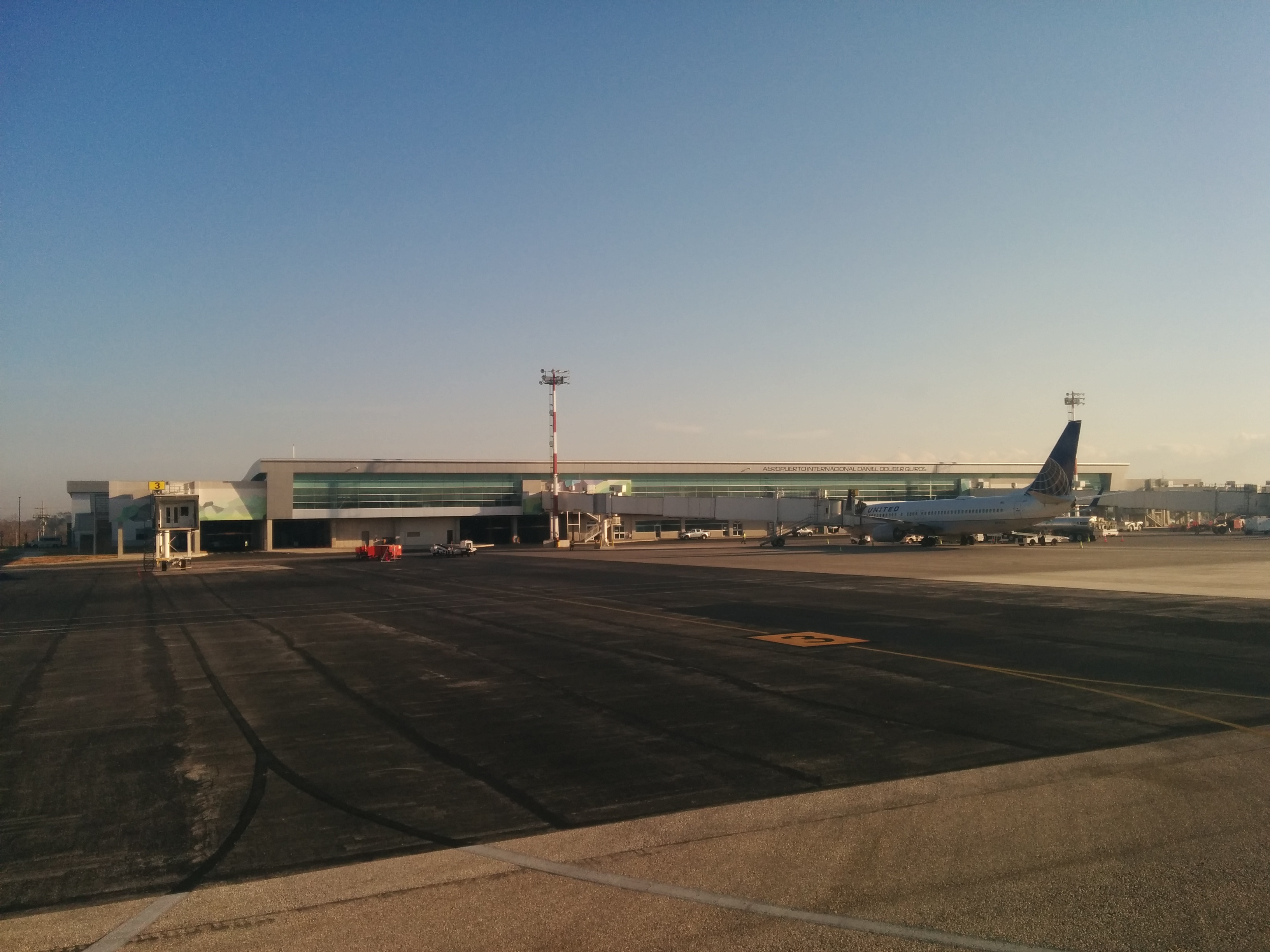 Liberia International Airport Main Building. Photograph taken from the tarmac.